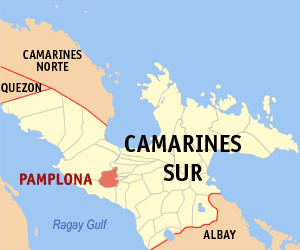 Map of Camarines Sur showing the location of Pamplona